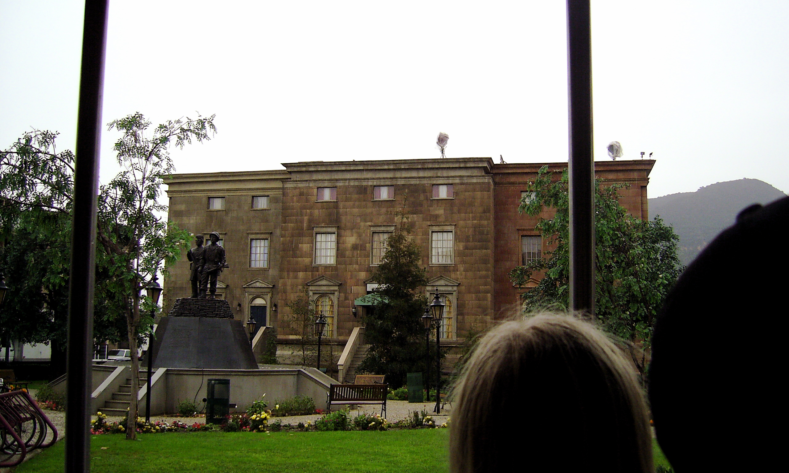 Courthouse from the Back to the Future films. Taken on January 1, 2006. This photo shows the Courthouse set for the CBS Television show "Ghost Whisperer".